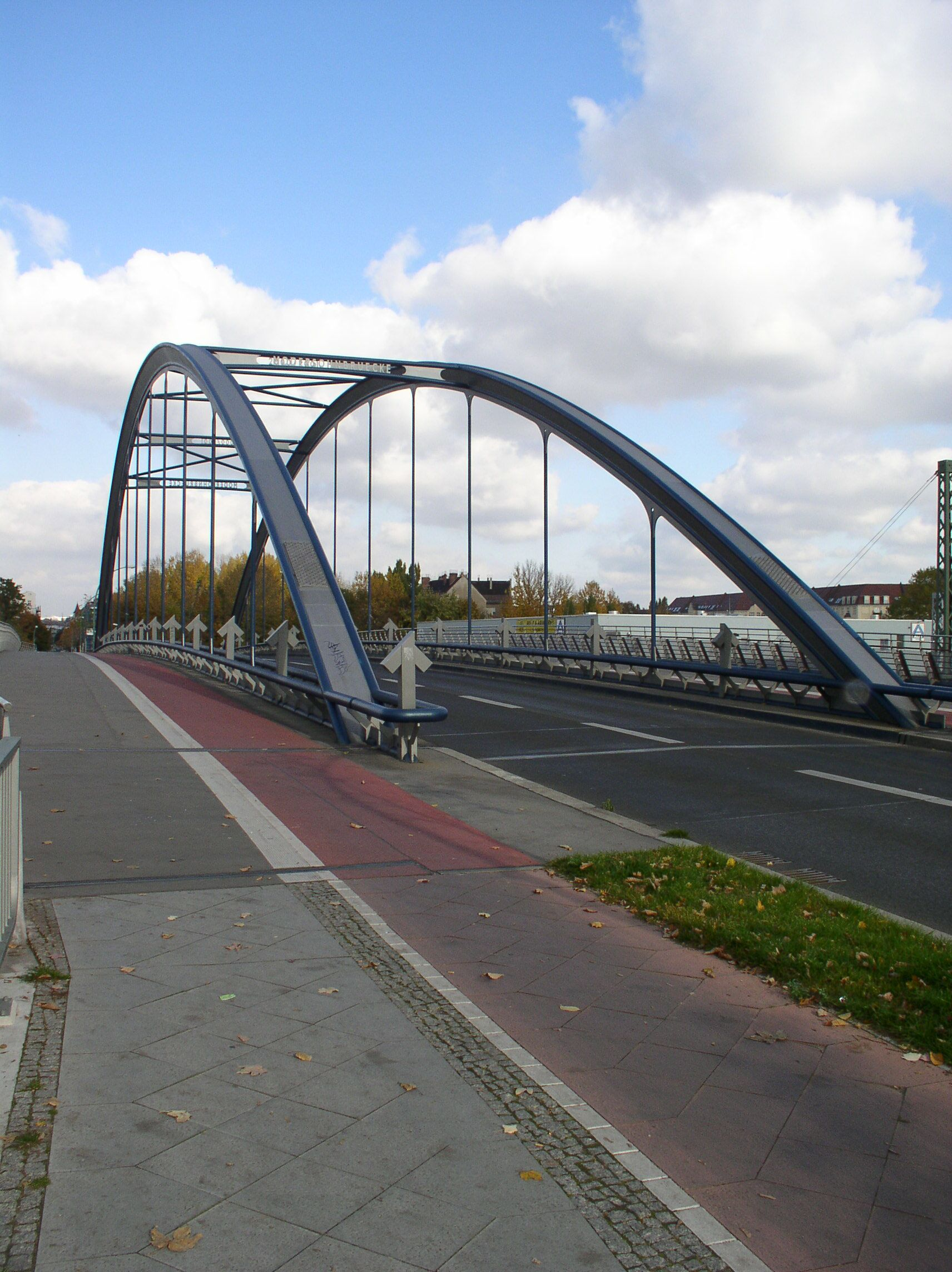 The new Modersohnbrücke across the tracks of the Berlin city railway in Friedrichshain.